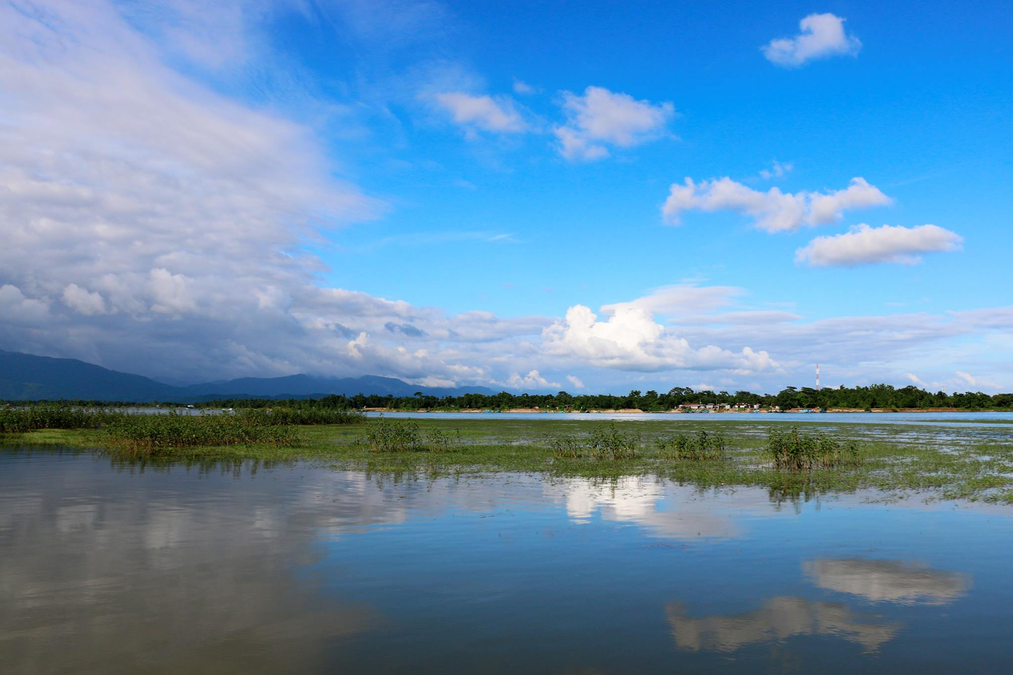 Beautiful Sunamganj